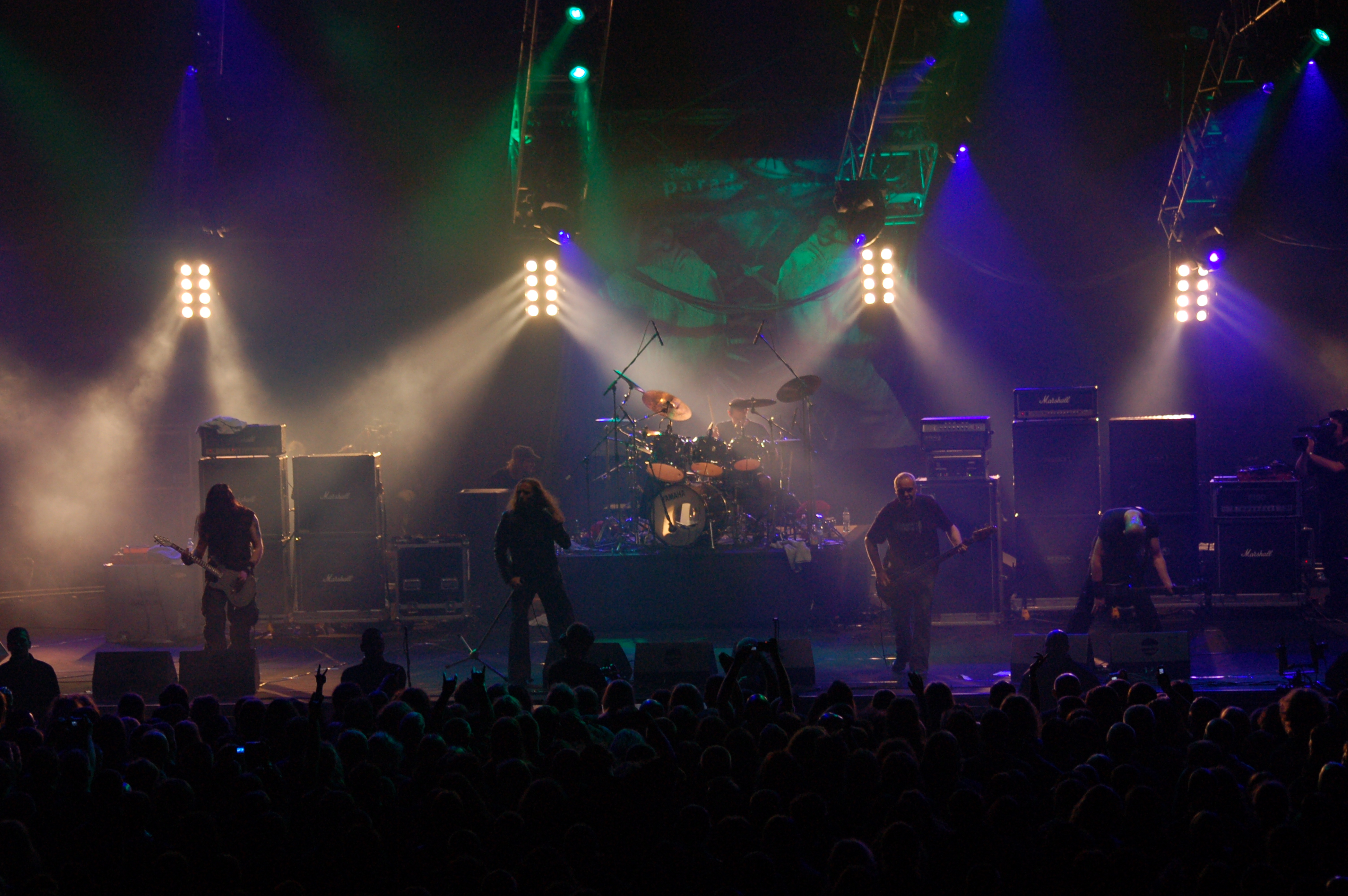 Metal band Paradise Lost during Metalmania 2007 festival